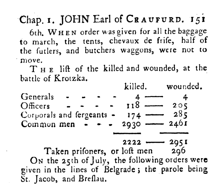 Casualties of the Battle of Grocka, fought in July 22, 1739, by John Lindsay, 20th Earl of Crawford, as mentioned in his Memoirs of the life of the late Right Honourable John, Earl of Craufurd, co-authored by Richard Rolt and published by Henry Köpp soon after his death. Caption is from the 1769 edition printed by T. Becket, page 151. Note: The sum of casualties is either a misprint or a miscalculation. Sum is mentioned as 2222, but it should be 3226, that is four generals and 3222 men. Lindsay didn't count generals in sums, as total of casualties listed as wounded would be 2955 including generals. Same misprint/calculation appears also in earlier edition, 1753 original print published by Henry Köpp. This error has been repeated and can still be seen in some contemporary works describing the battle and giving a number of casualties based on this information, such as The Enemy at the Gate - Habsburgs, Ottomans and the Battle for Europe by Andrew Wheatcroft.